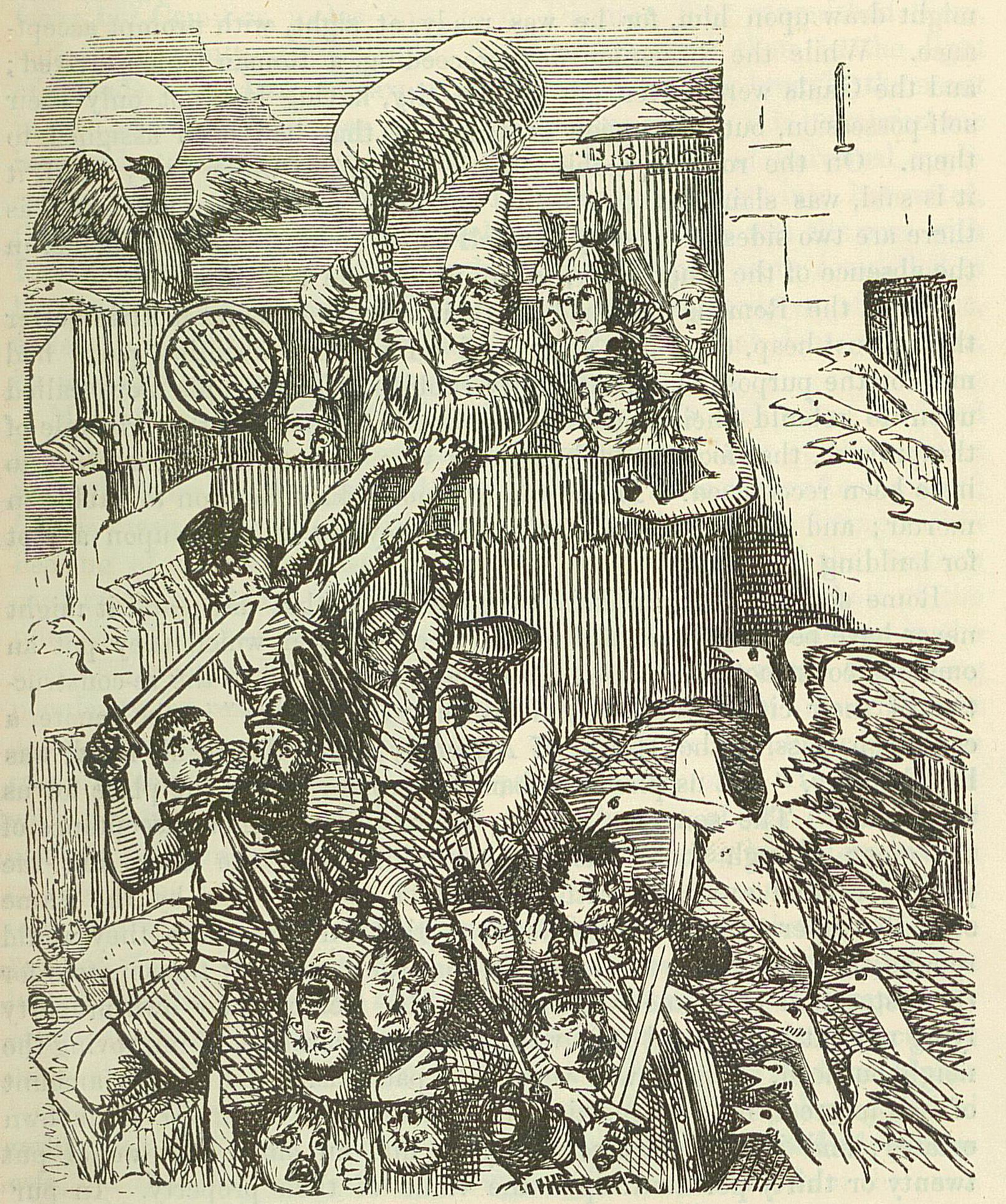 Image by John Leech, from: The Comic History of Rome by Gilbert Abbott A Beckett. Bradbury, Evans & Co, London, 1850s The Citadel saved by the cackling of the Geese